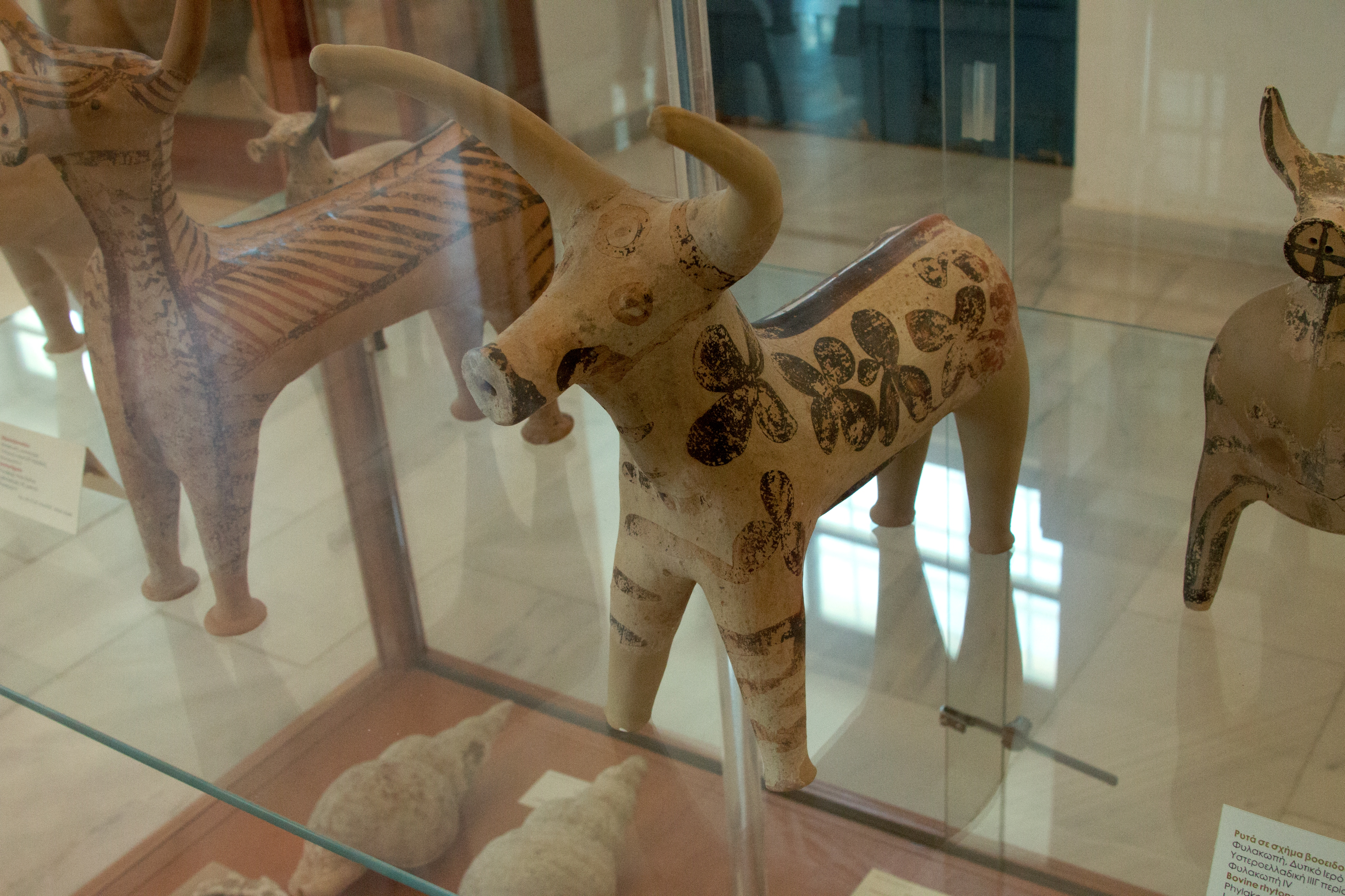 Bovine figurines from West Shrine in Phylakopi. Late Helladic III C period. Phylakopi IV. Archeological Museum of Milos.